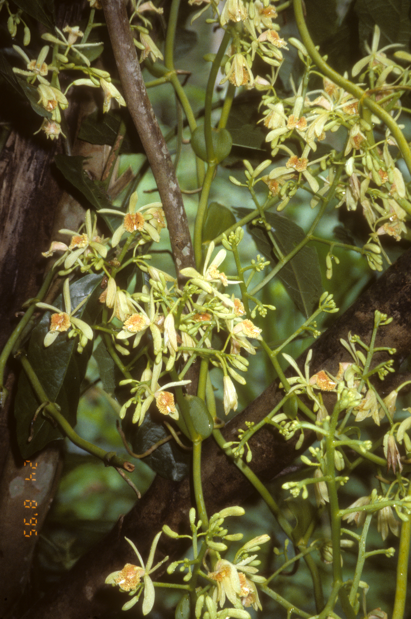 Pseudovanilla foliata, image taken in Warmare, Papua (Irian Jaya), Indonesia.